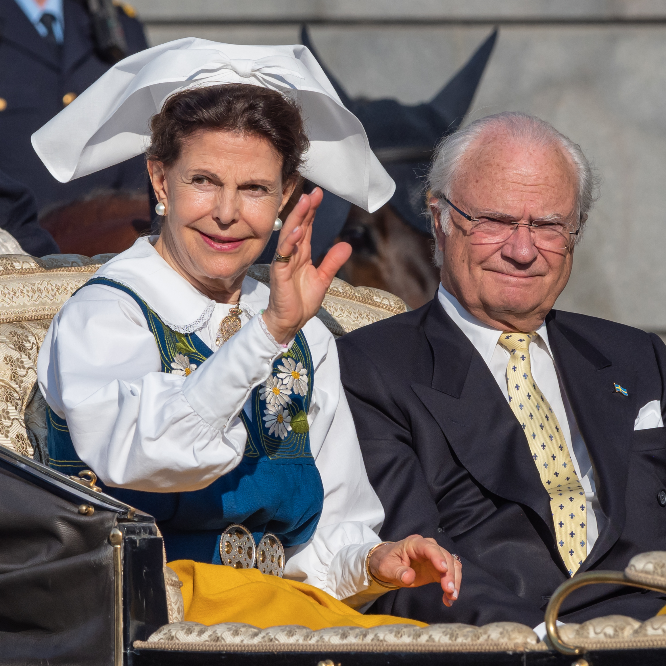 Royal cortege, Stockholm, June 2019